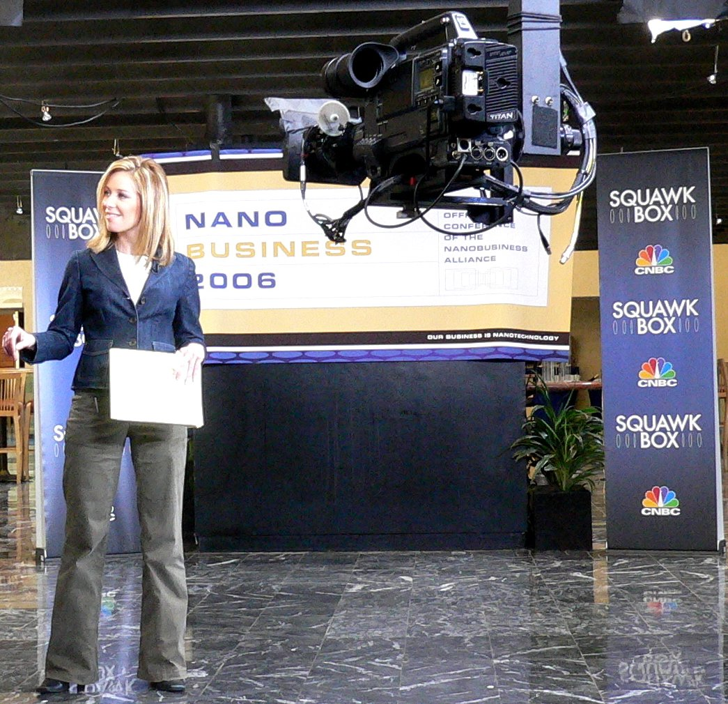 Cropped headshot of Becky QuickRemote Control